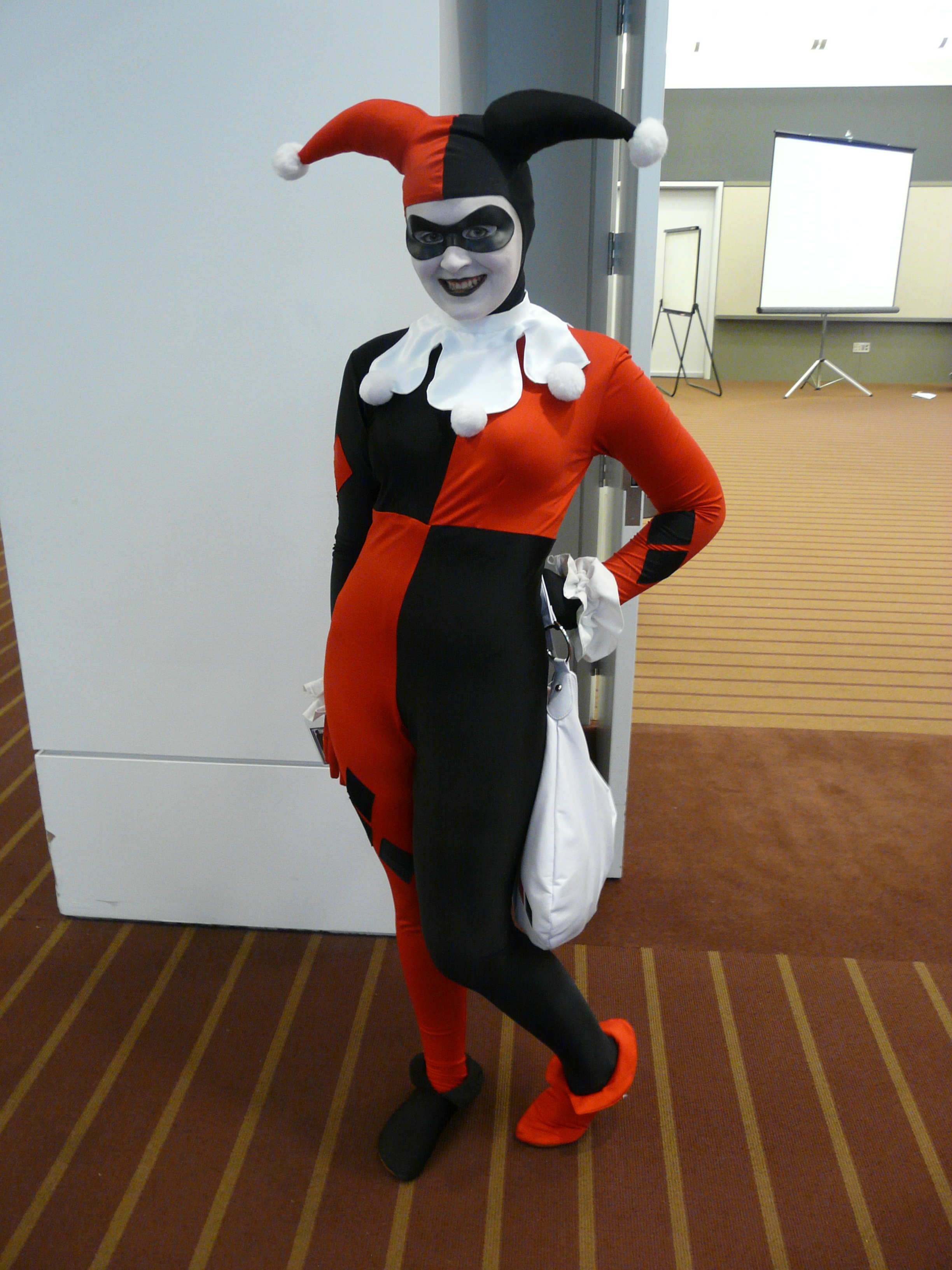 Tekkoshocon at David L. Lawrence Convention Center (2010)